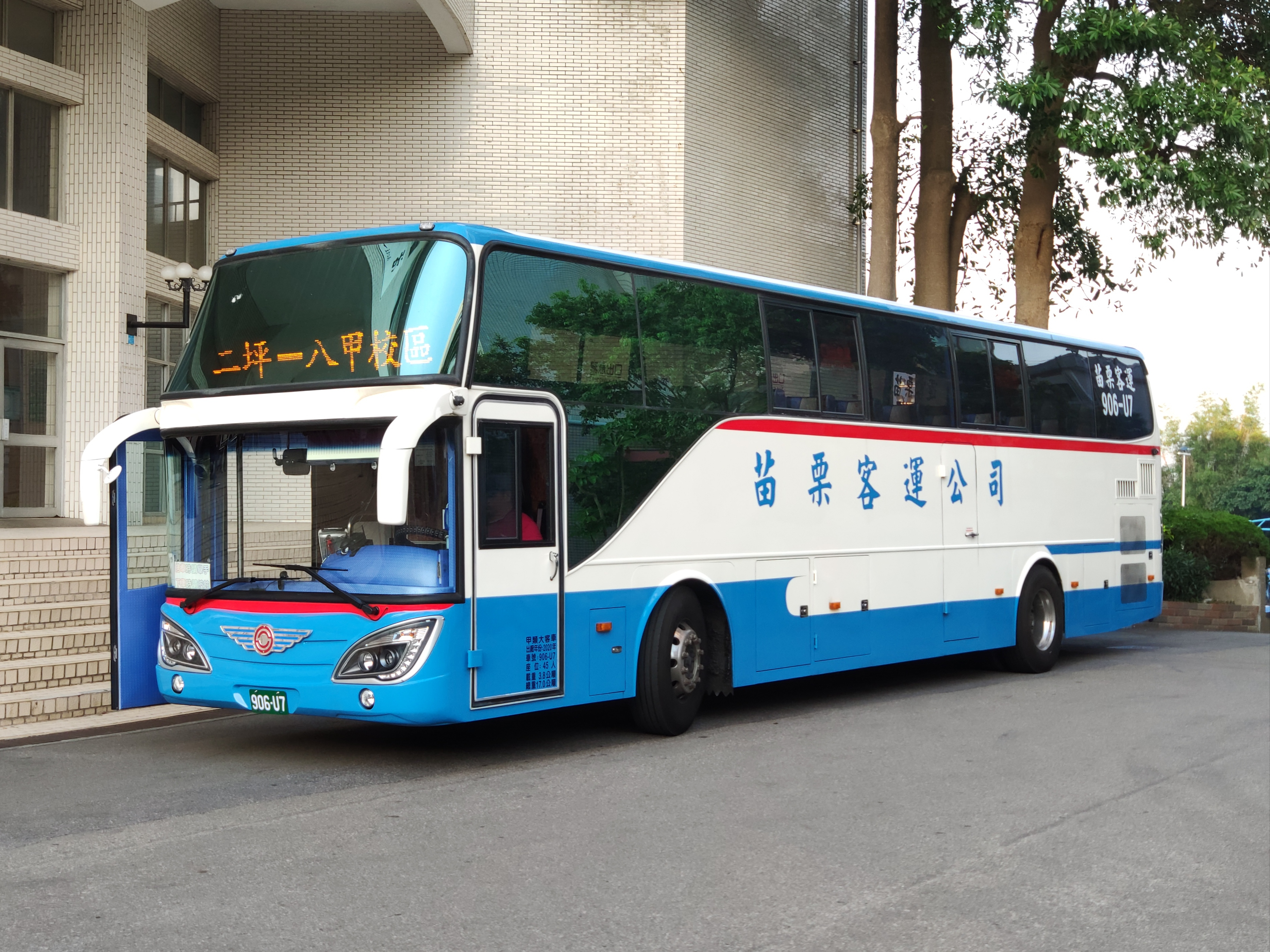 2020 ASIASTAR YBL6121HD 906-U7